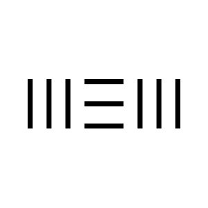 Paul McCartney's New Single Cover